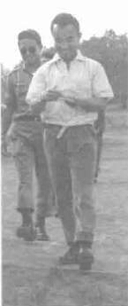 Kong Le, leader of the coup d'etat 8./9. Aug. 1960 in Laos. Later army chief, exiled 1966.